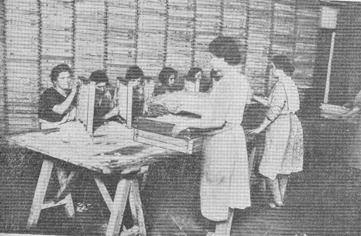 Enfleurage, A. Chirls Factory, Grasse